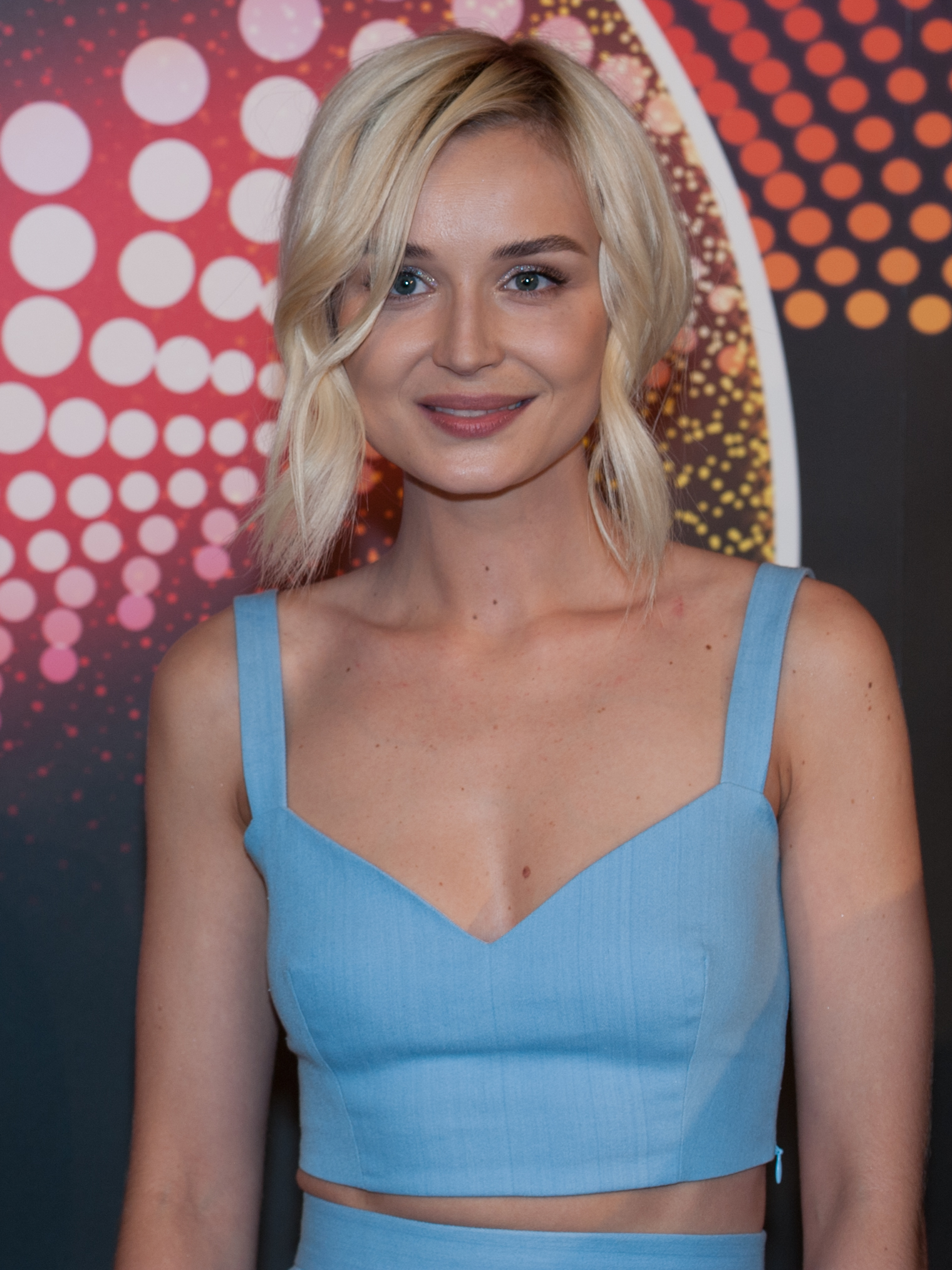 Eurovision Song Contest Vienna 2015: Polina Gagarina